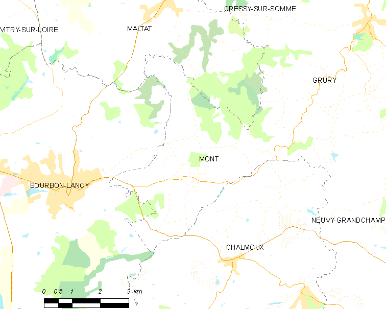 Map of French municipality